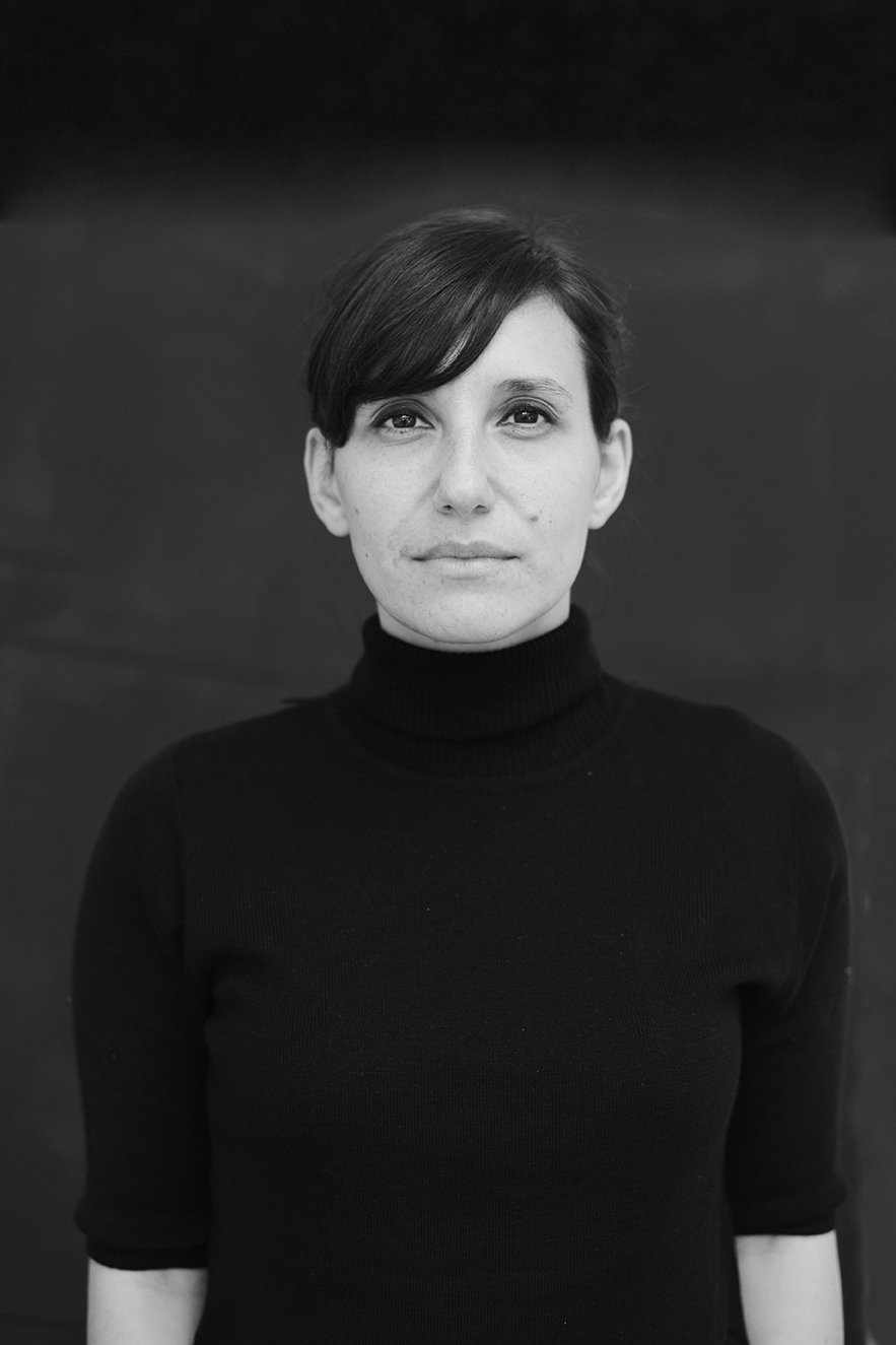 Lilli Messina, 2014